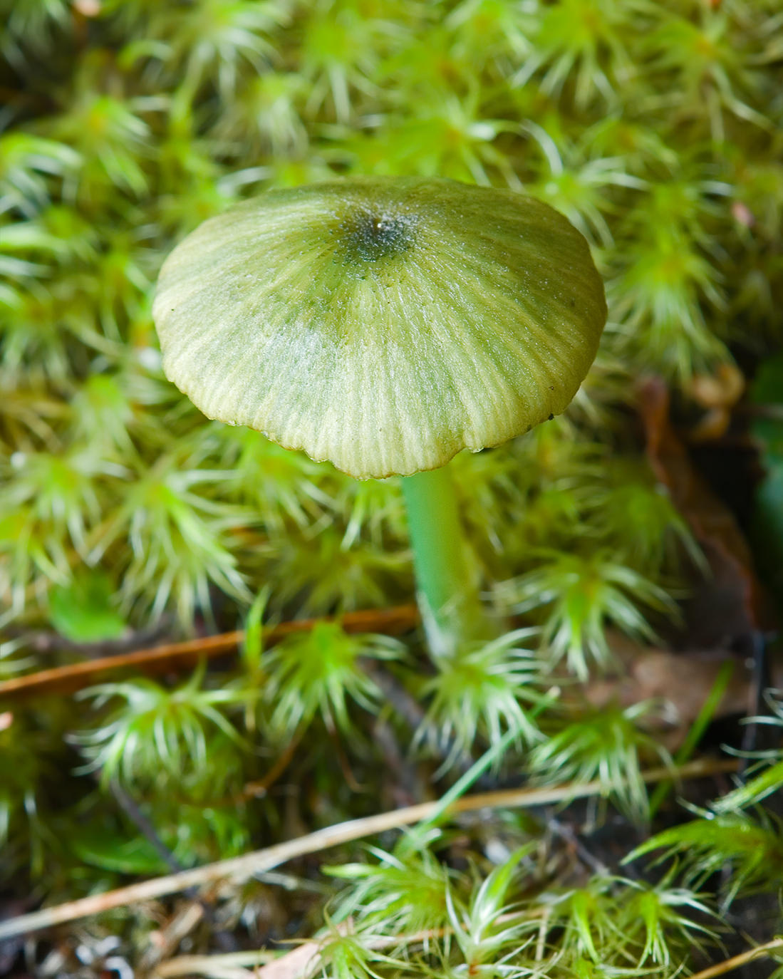 Entoloma rodwayi, Wielangta Forest, Tasmania Camera data Camera Canon EOS 400D Lens Tamron EF 180mm f3.5 1:1 Macro Flash Umbrella Right Focal length 180 mm Aperture f/10 Exposure time 1/200 s Sensivity ISO 200